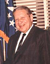 Photograph of Illinois Governor Sam Shapiro. Cropped from photograph of Shapiro with "Doc" Helm, placed by his daughter with the note "Ownership: This image is considered to be in the public domain."